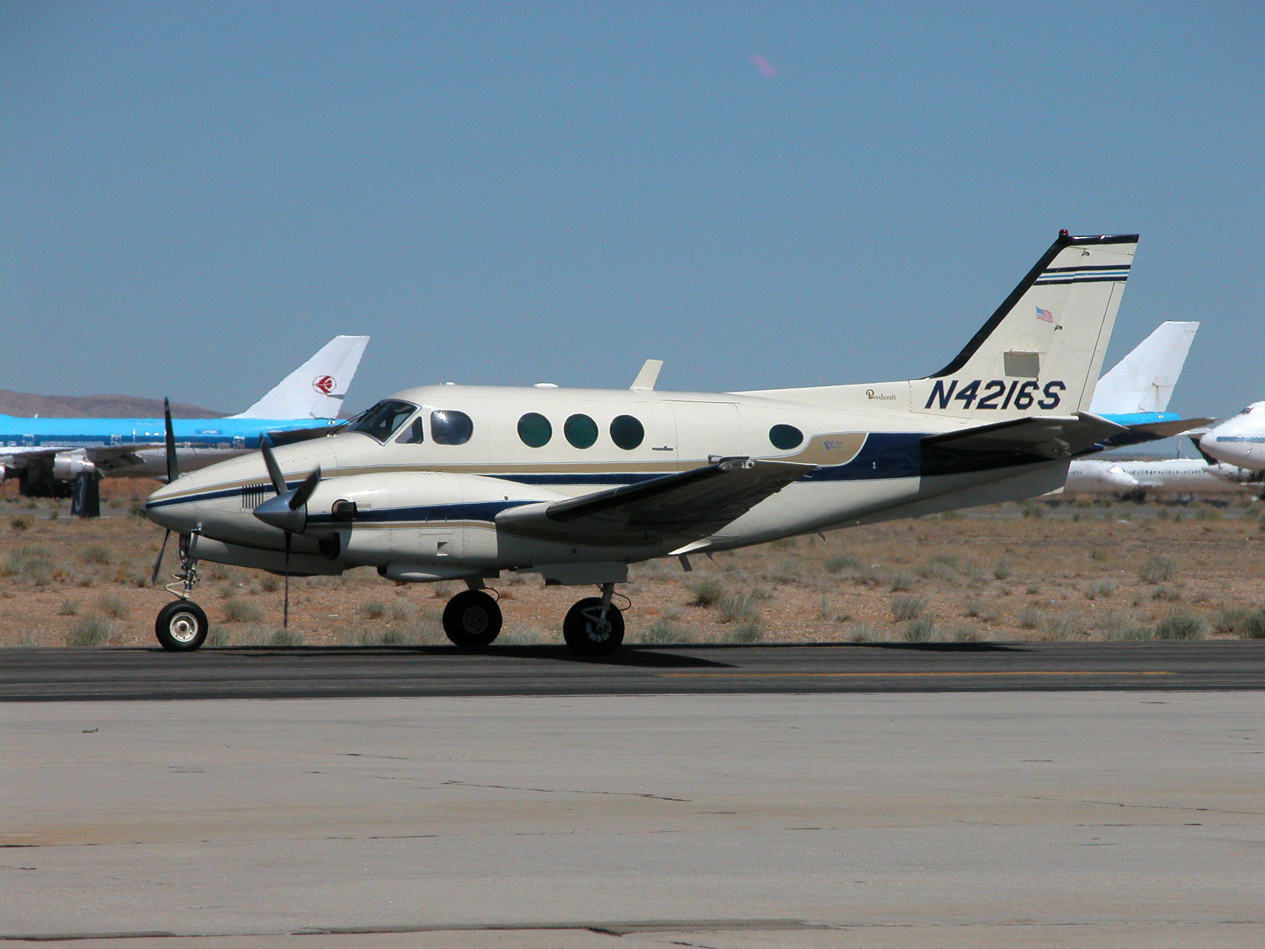 Beechcraft King Air E90 (N4216S) taxis at the Mojave Spaceport